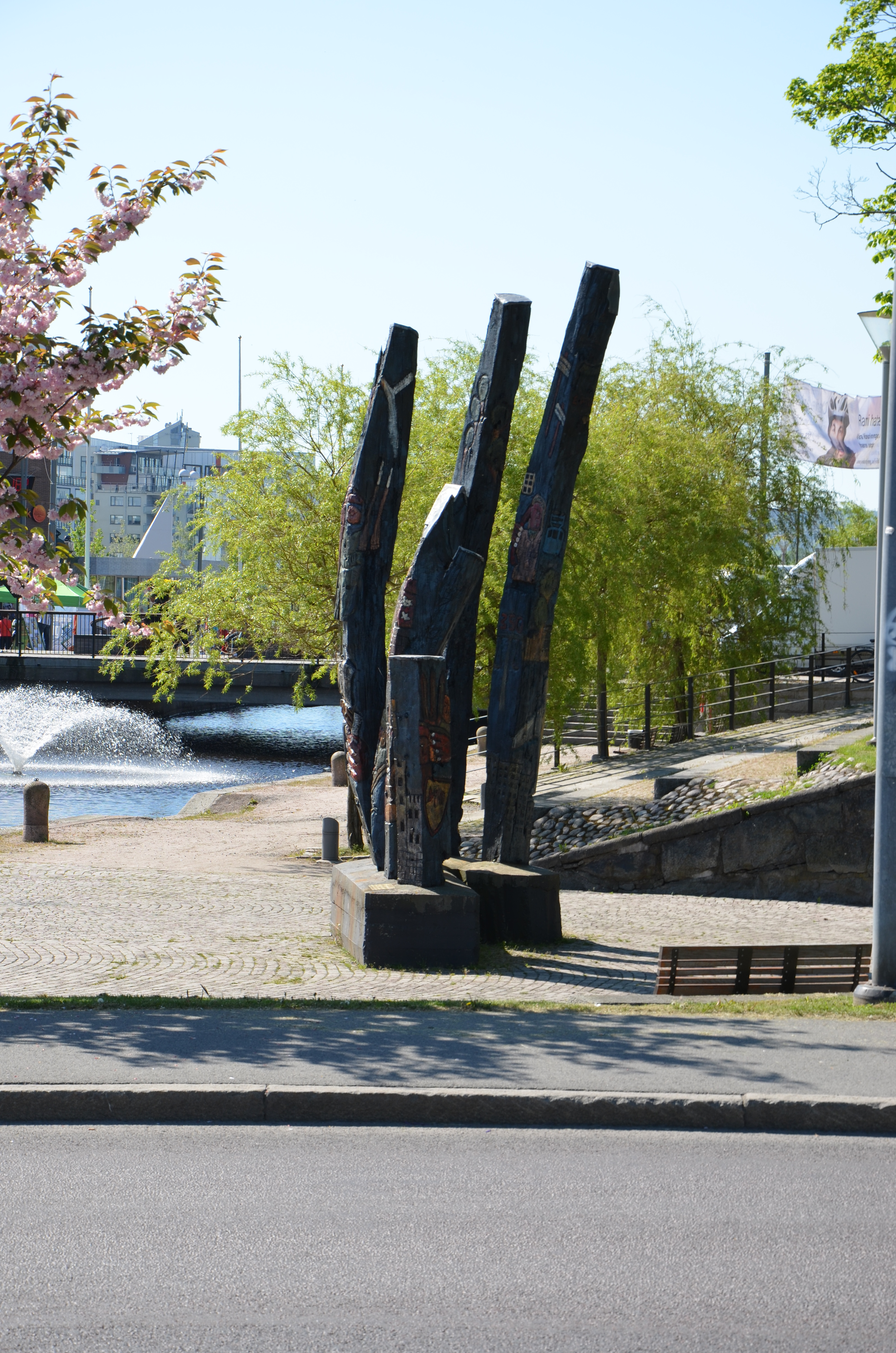 Calle Örnemarks Sju sekel på Hamnplan i Jönköping, målat trä, 1984